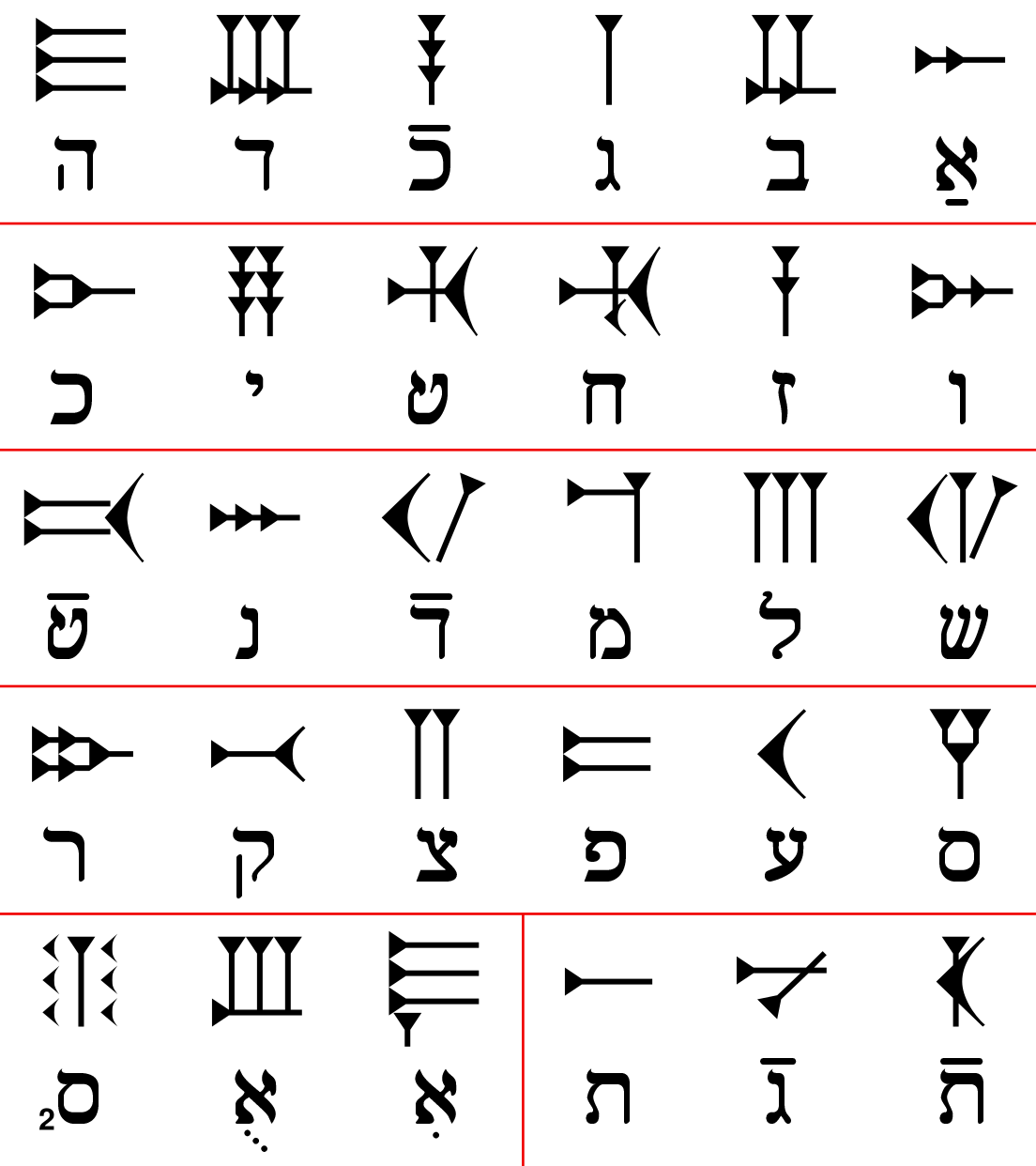 The Ugaritic alphabet shown in rows right-to-left with the nearest equivalent Hebrew-alphabet letters under each Ugaritic letter. Notes: The letters ח and ע should be understood as having their older (Sephardic) values as pharyngeal consonants. The letter ו is used with its older sound value of [w]. The overline or rafe diacritic indicates a fricative pronunciation of a letter which basically writes a stop sound (in modern Israeli Hebrew, the spellings ד׳ and ת׳ are sometimes used to write what is shown here as ד with rafe and ת with rafe, or [ð] and [θ]). The letters equivalent to ק, צ, ט, and ט with rafe overline diacritic were "emphatic" in Ugaritic. For further explanations on the Ugaritic side, see the image description page File:Ugaritic-alphabet-chart.svg .